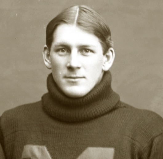 Photograph of Clayton Teetzel